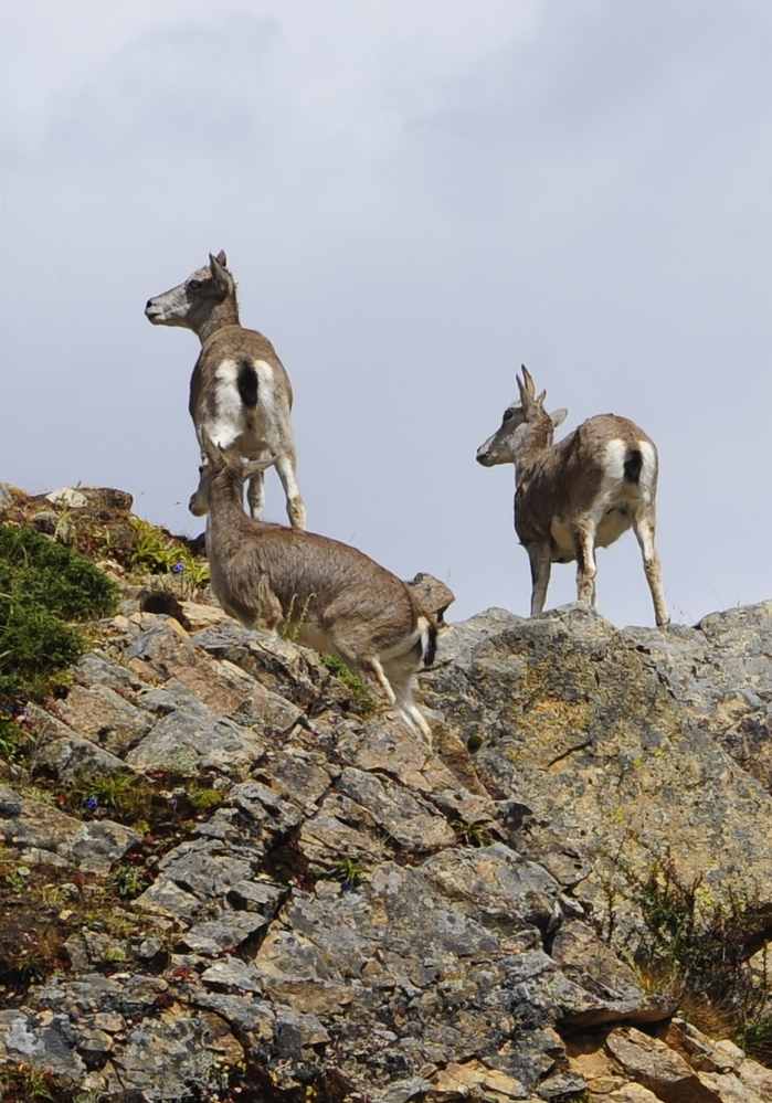 Bharal, Himalayan blue sheep.